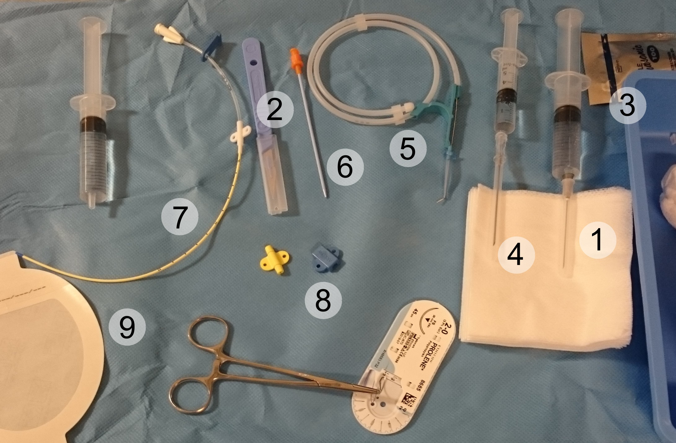 Central venous catheterization set, in order of typical usage: 1. Syringe with local anesthetic 2. Scalpel in case venous cutdown is needed 3. Sterile gel for ultrasound guidance 4. Introducer needle (here 18 Ga) on syringe with saline to detect backflow of blood upon vein penetration 5. Guide wire 6. Tissue dilator 7. Indwelling catheter (here 16 Ga) 8. Additional fasteners, and corresponding surgical thread 9. Dressing